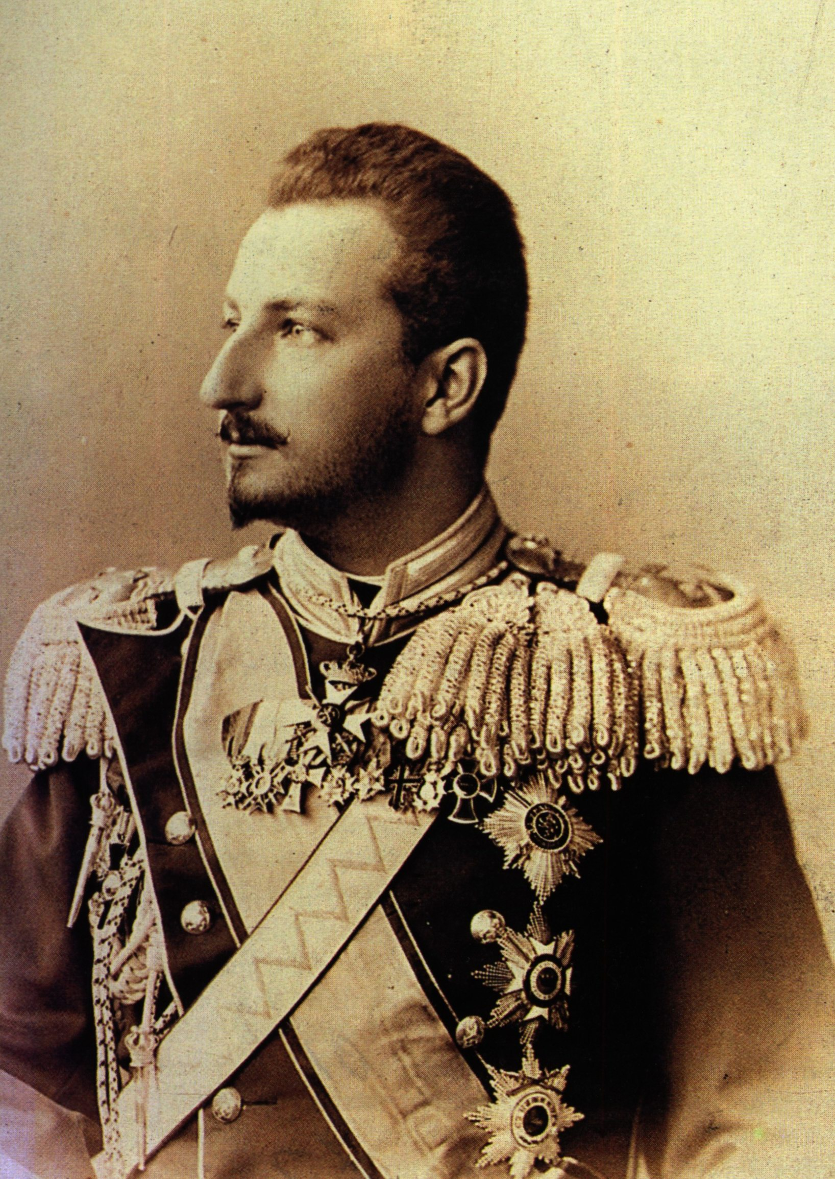 A picture of tsar (king) Ferdinand of Bulgaria in his younger days.